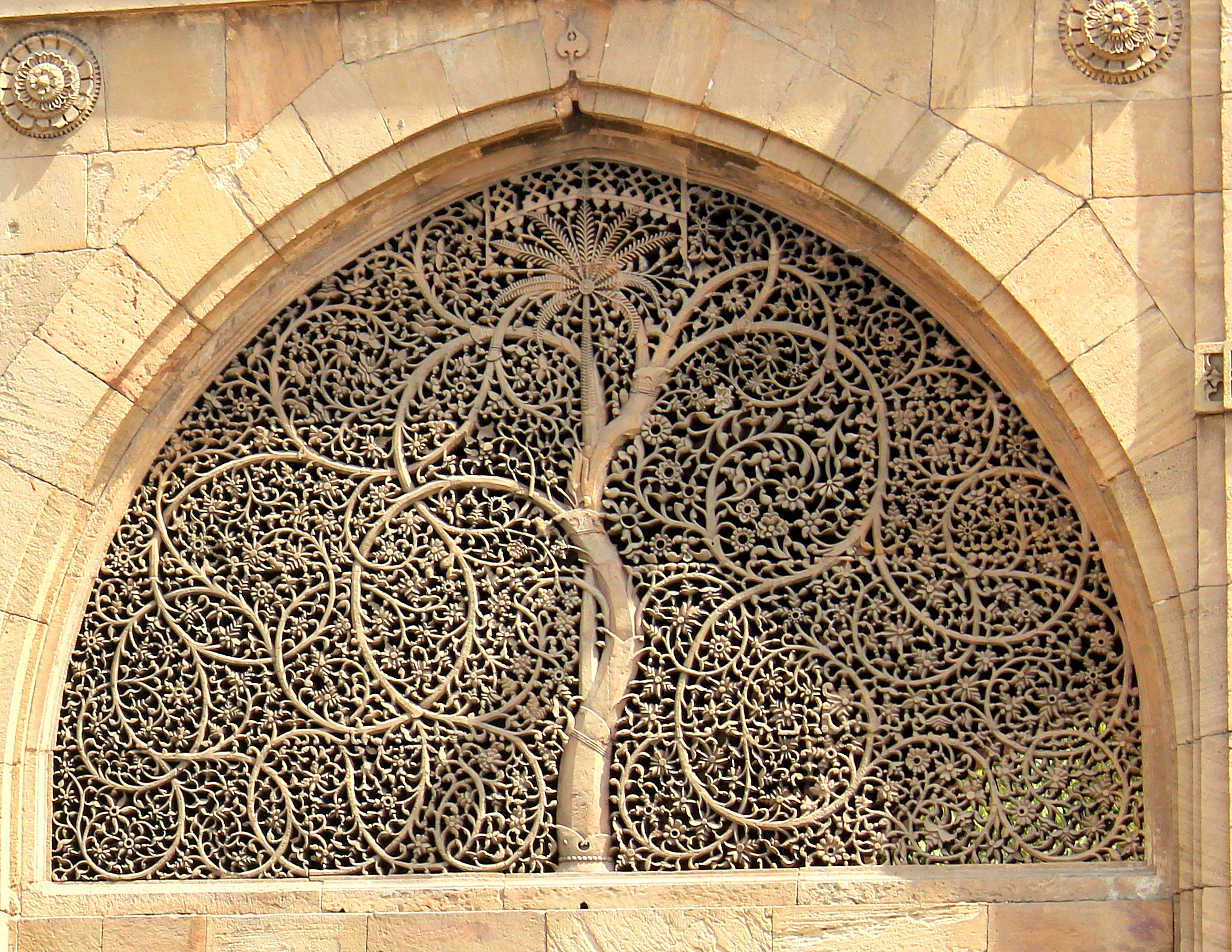 Mosque of Sidi Sayed Jaali in Ahmedabad